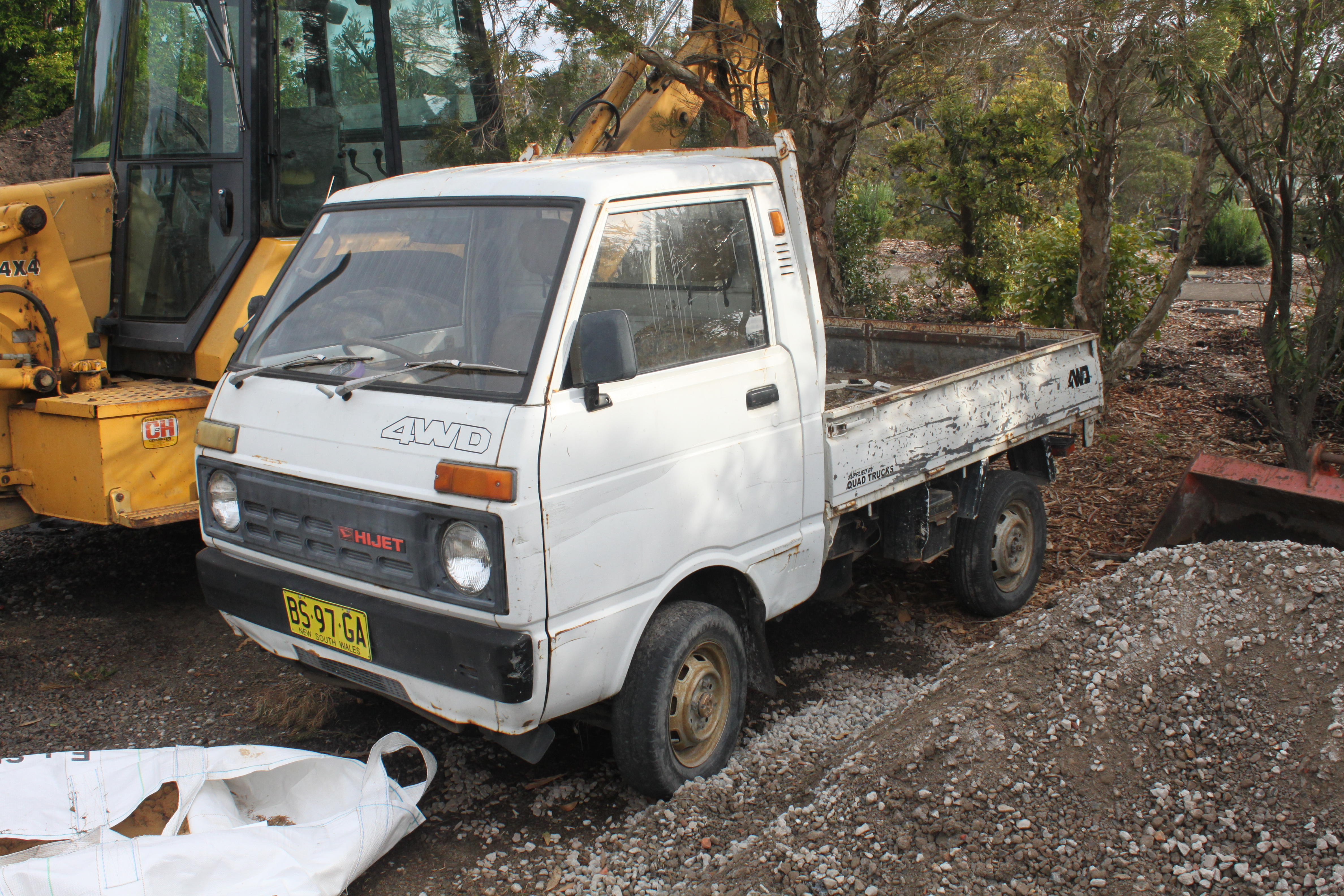 According to the NSW RMS, the licence plate "BS97GA" returns as a "1988 WHITE DAIHATSU TRUCK S85V TIPPER". However, based on Redbook and other sources it seems to be a 1985-1986 Daihatsu Hijet (S76) 600 4WD cab chassis.